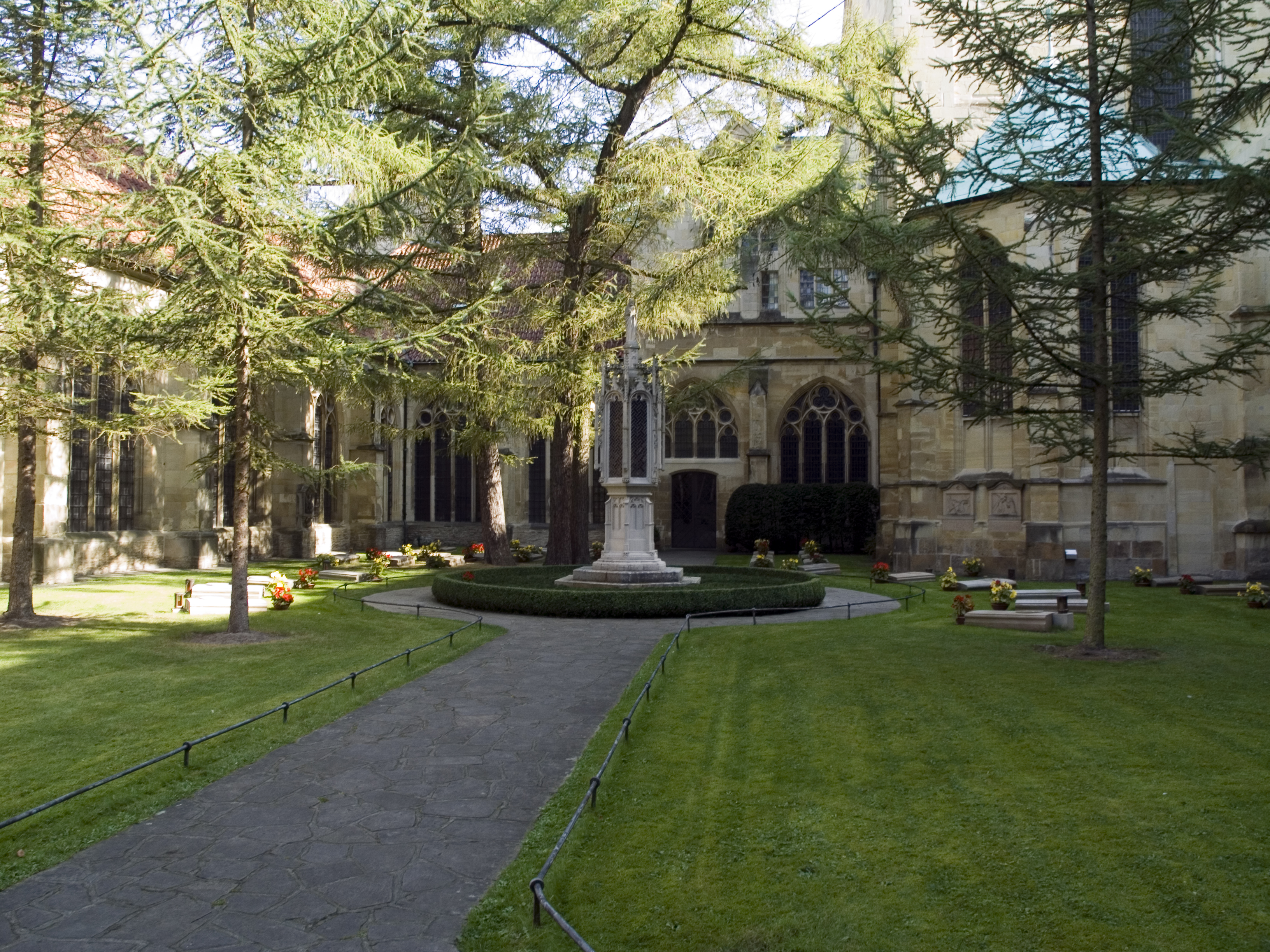 NRW, Munster, Altstadt, St.-Paulus-Dom (inner yard)